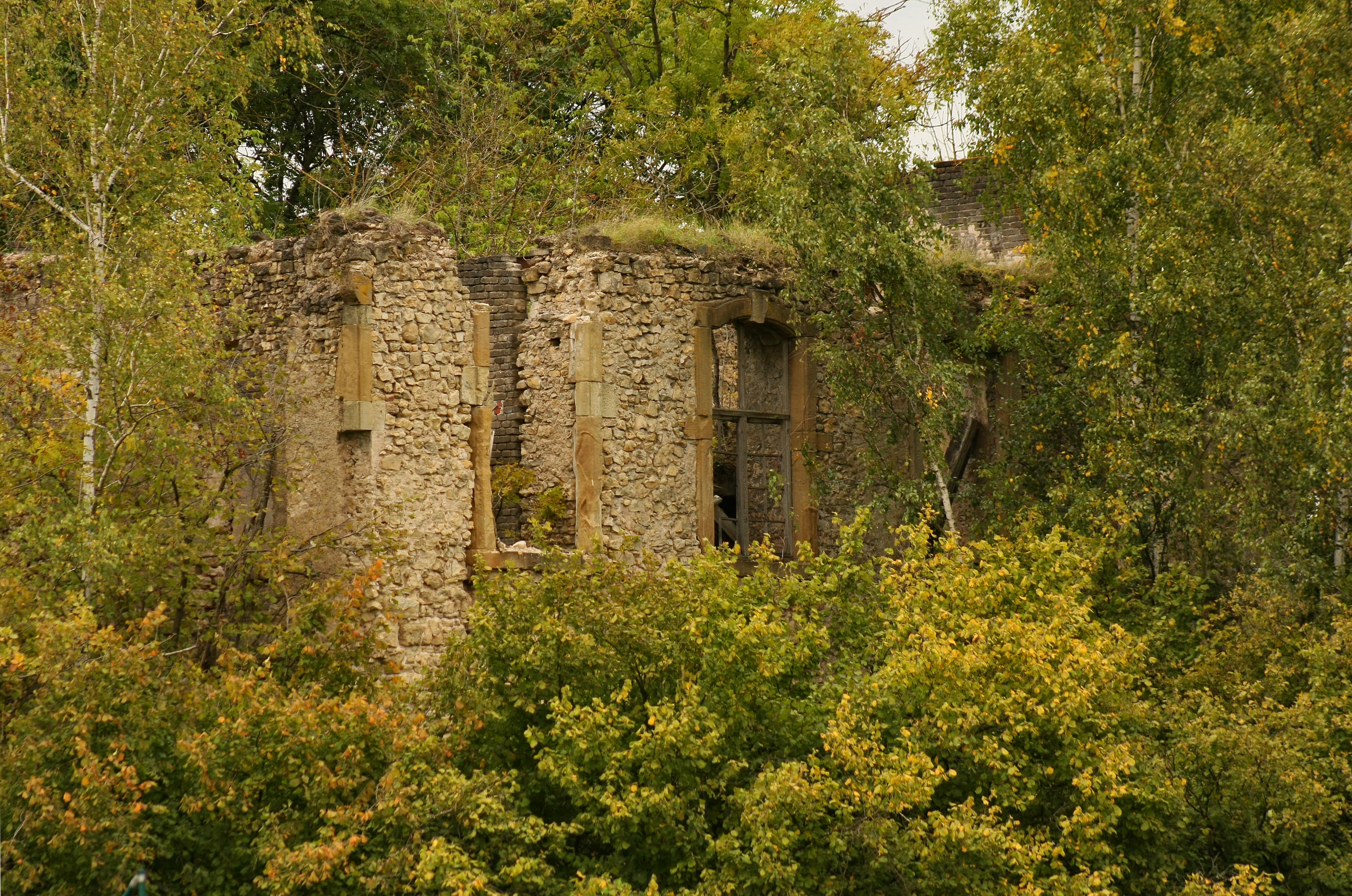 Ruin of the Renaissance castle Bübingen.